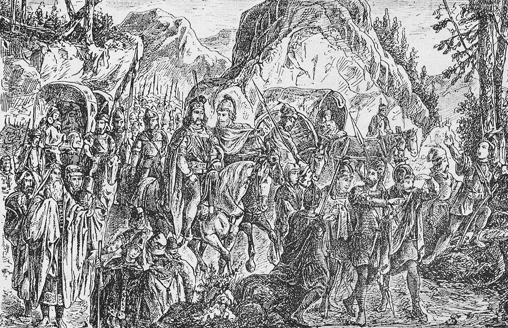 Migration of Serbs from Bojka